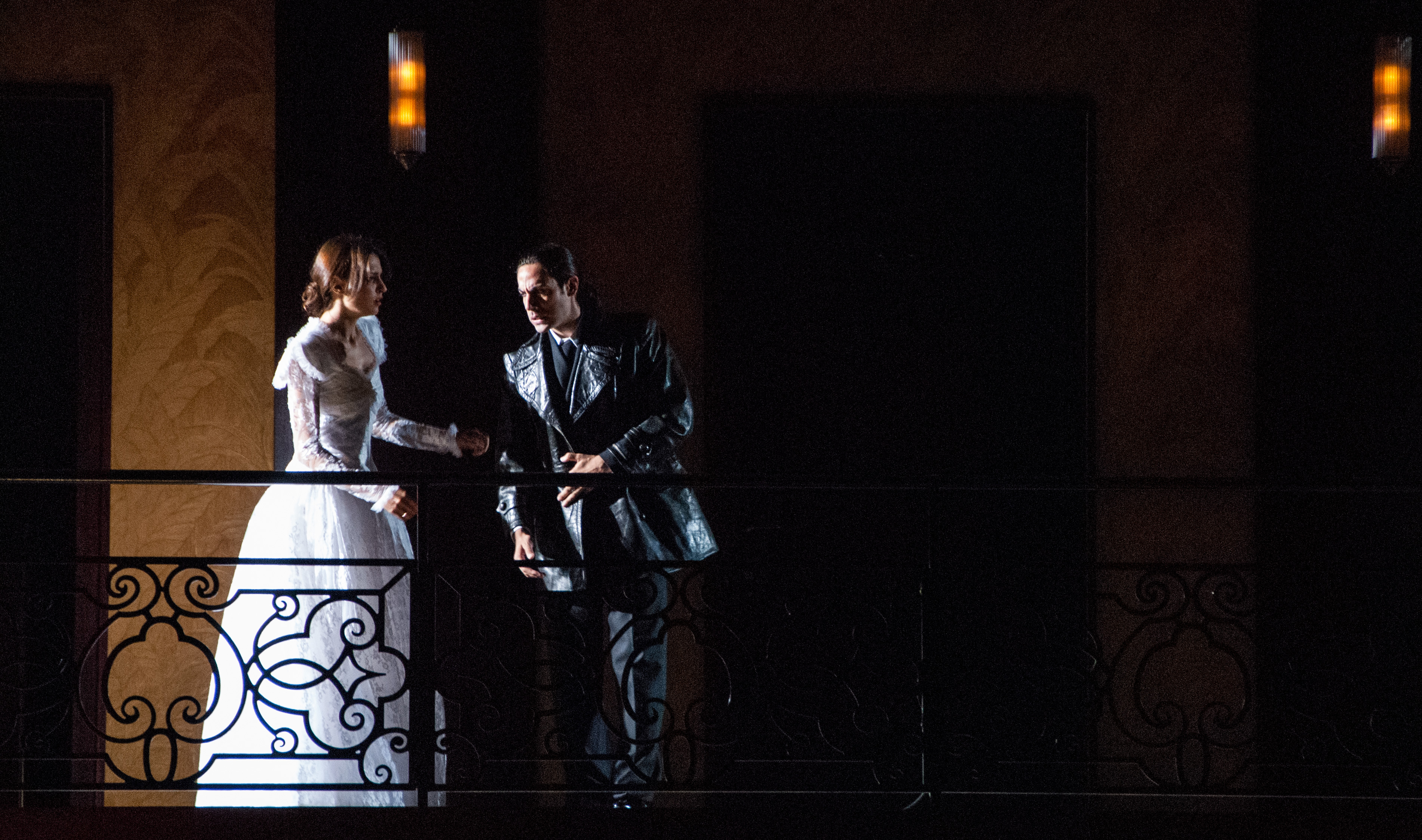 Don Giovanni, Salzburger Festspiele 2014, Ildebrando D’Arcangelo as Don Giovanni and Valentina Naforniţă as Zerlina